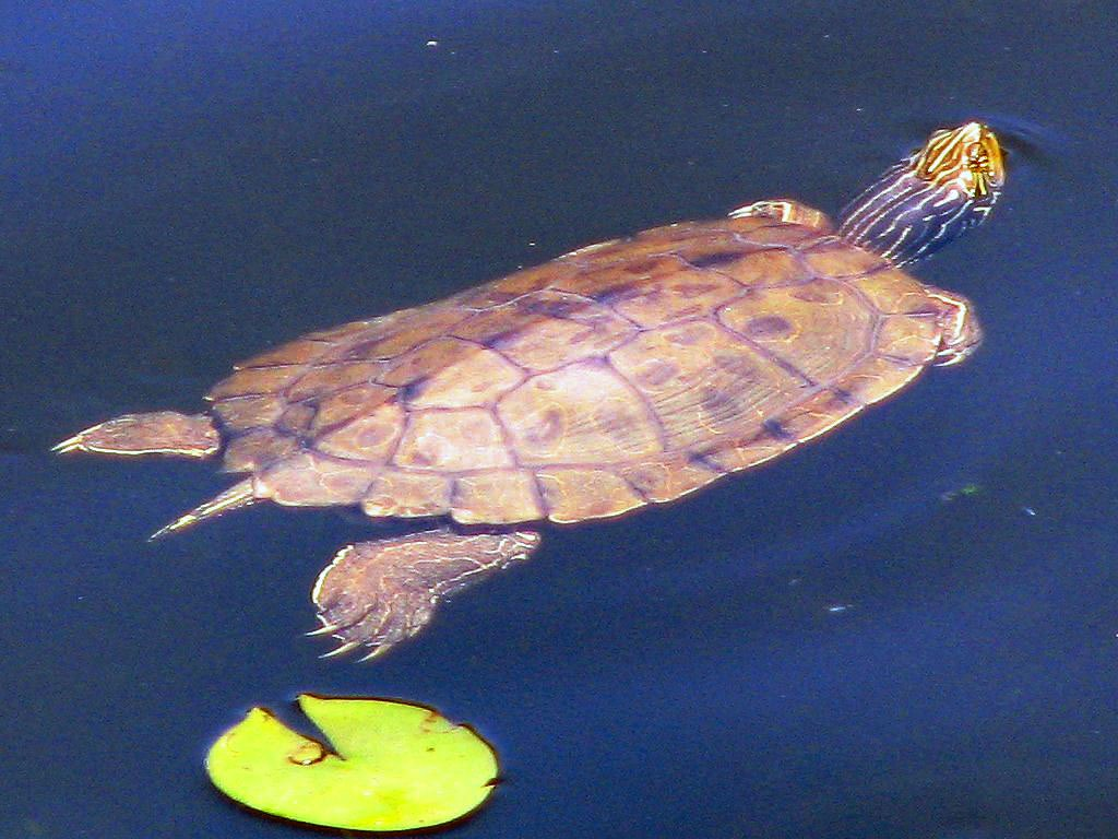 Northern Map Turtle (Graptemys geographica) taken in Gatineau, Quebec